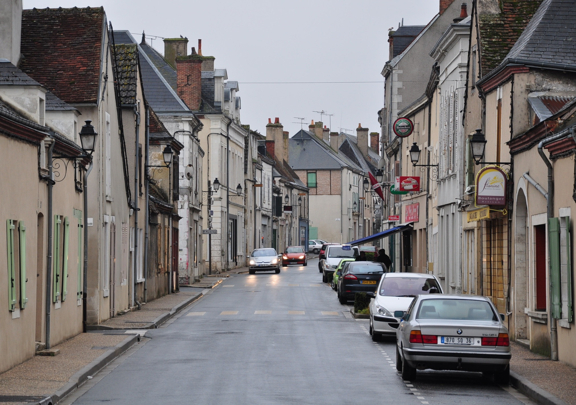 Main street (Rue Grande) in Vatan (Indre, France).